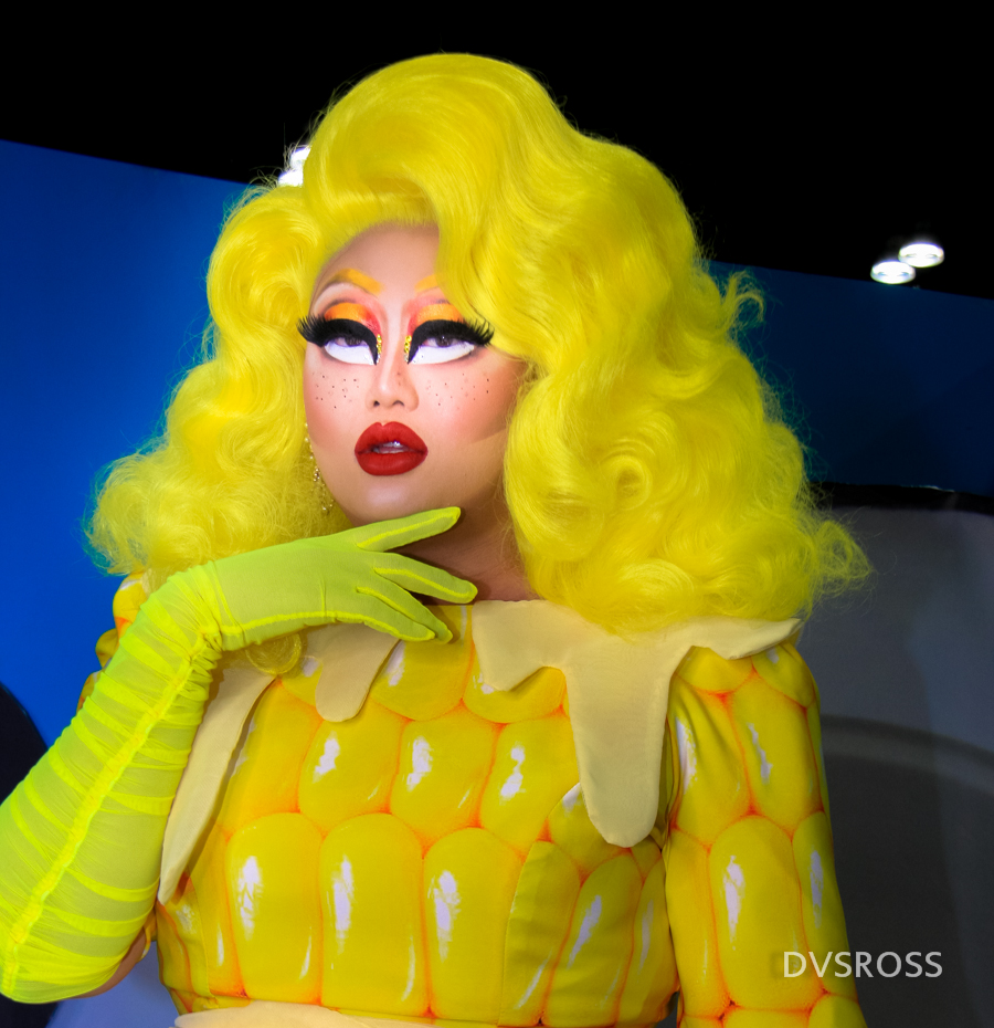 Kim Chi at RuPaul's DragCon LA 2018